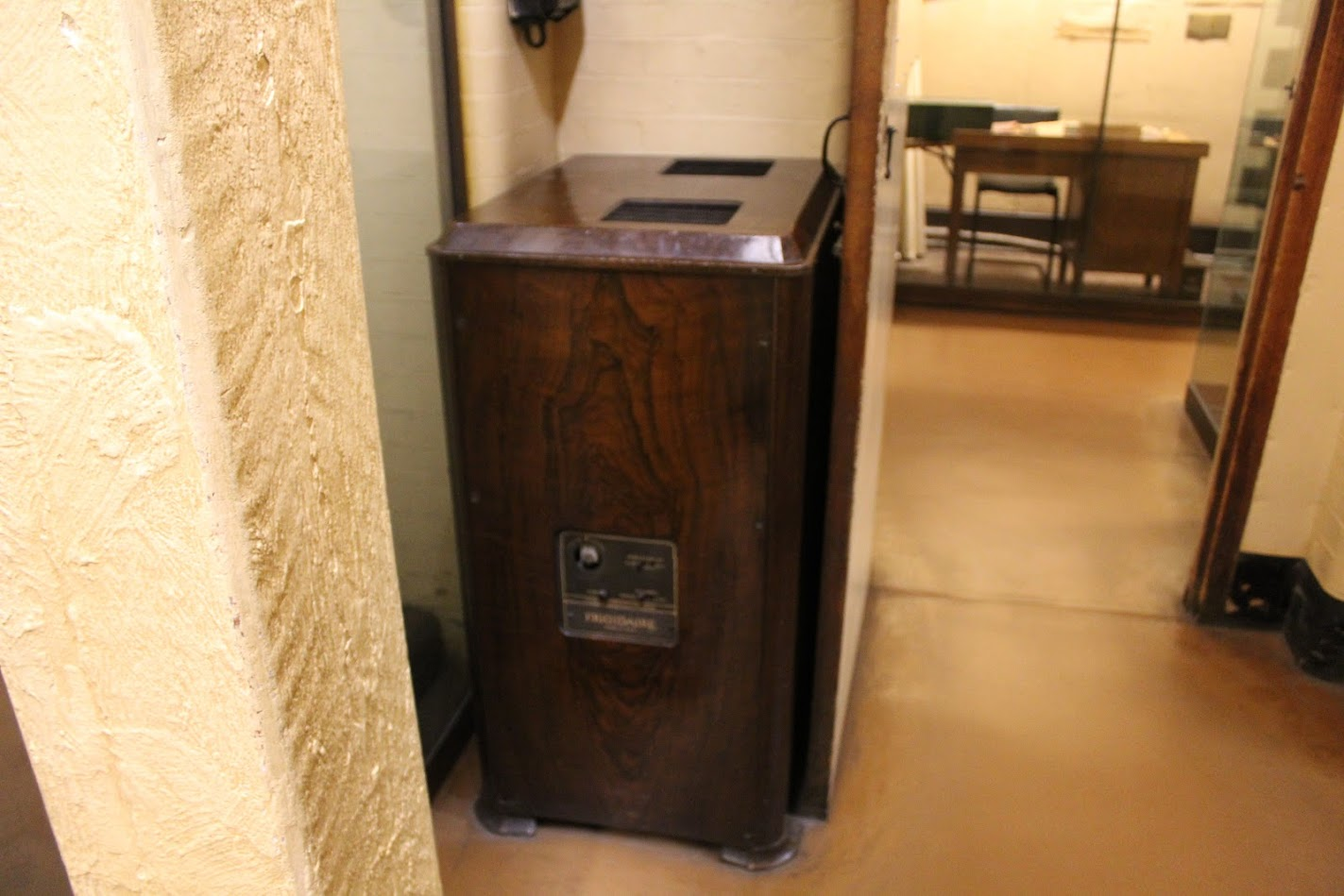 This Frigidaire Air Conditioning Unit is located at the Churchill War Rooms in London, Great Britain.